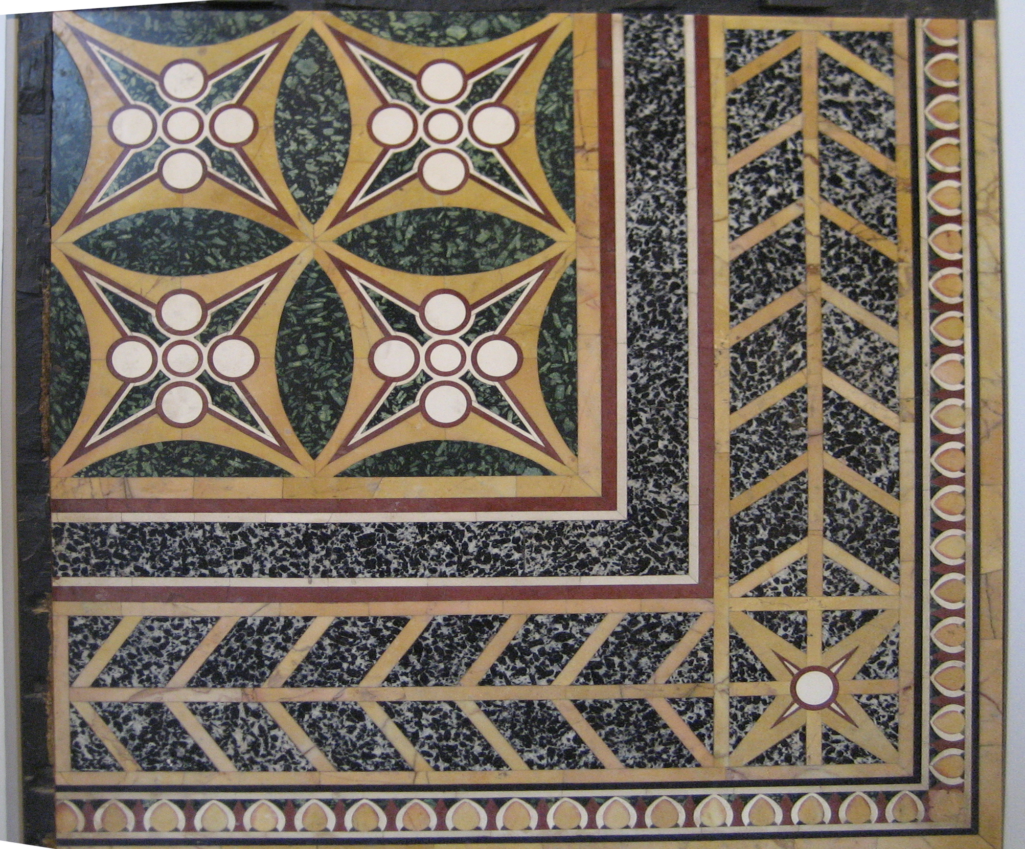 Opus sectile panel from floor of cenatio of Domitian's palace